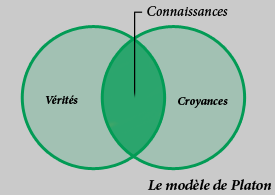 Classical definition of knowledge, according to Plato.